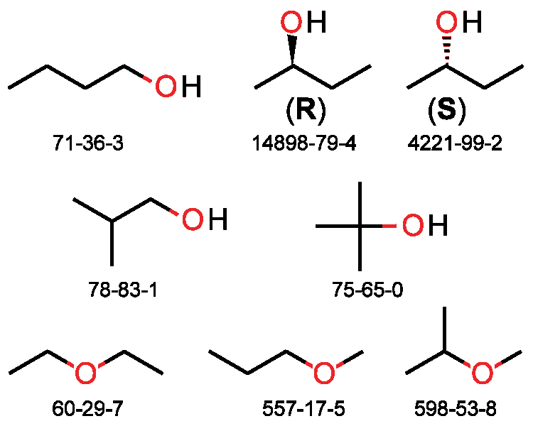 isomers of C4H10O